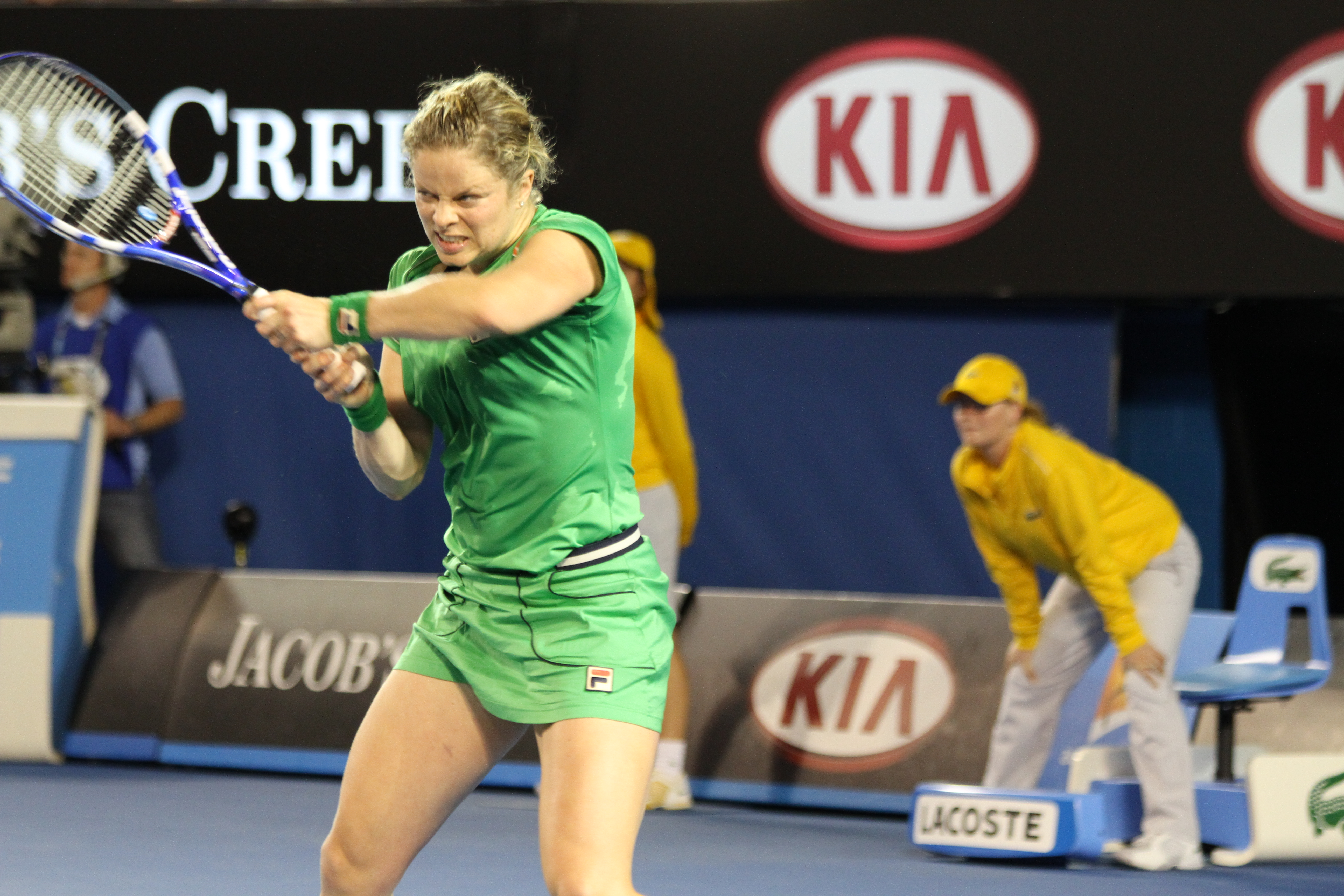 Kim Clijsters at the 2011 Australian Open